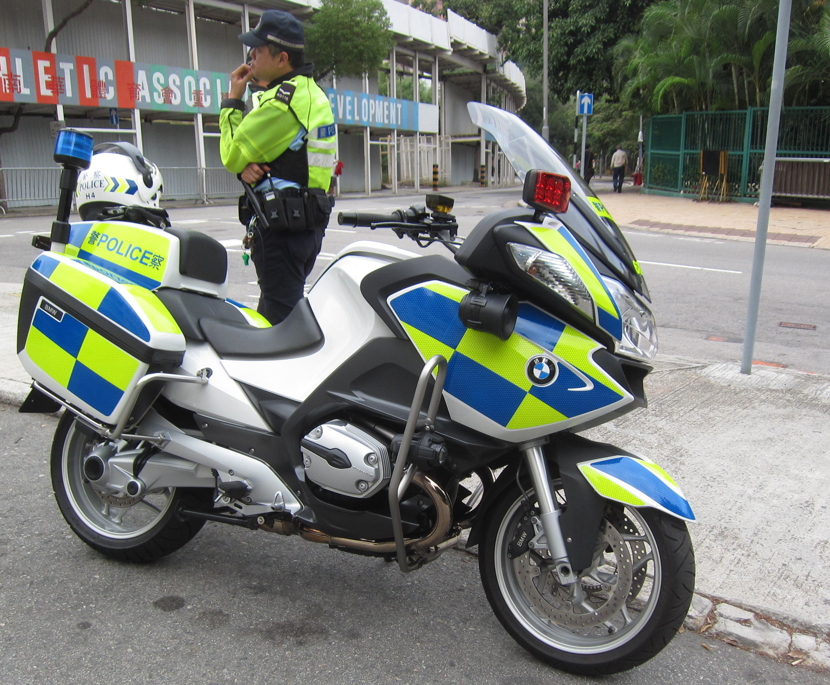 BMW R900RT in Hongkong